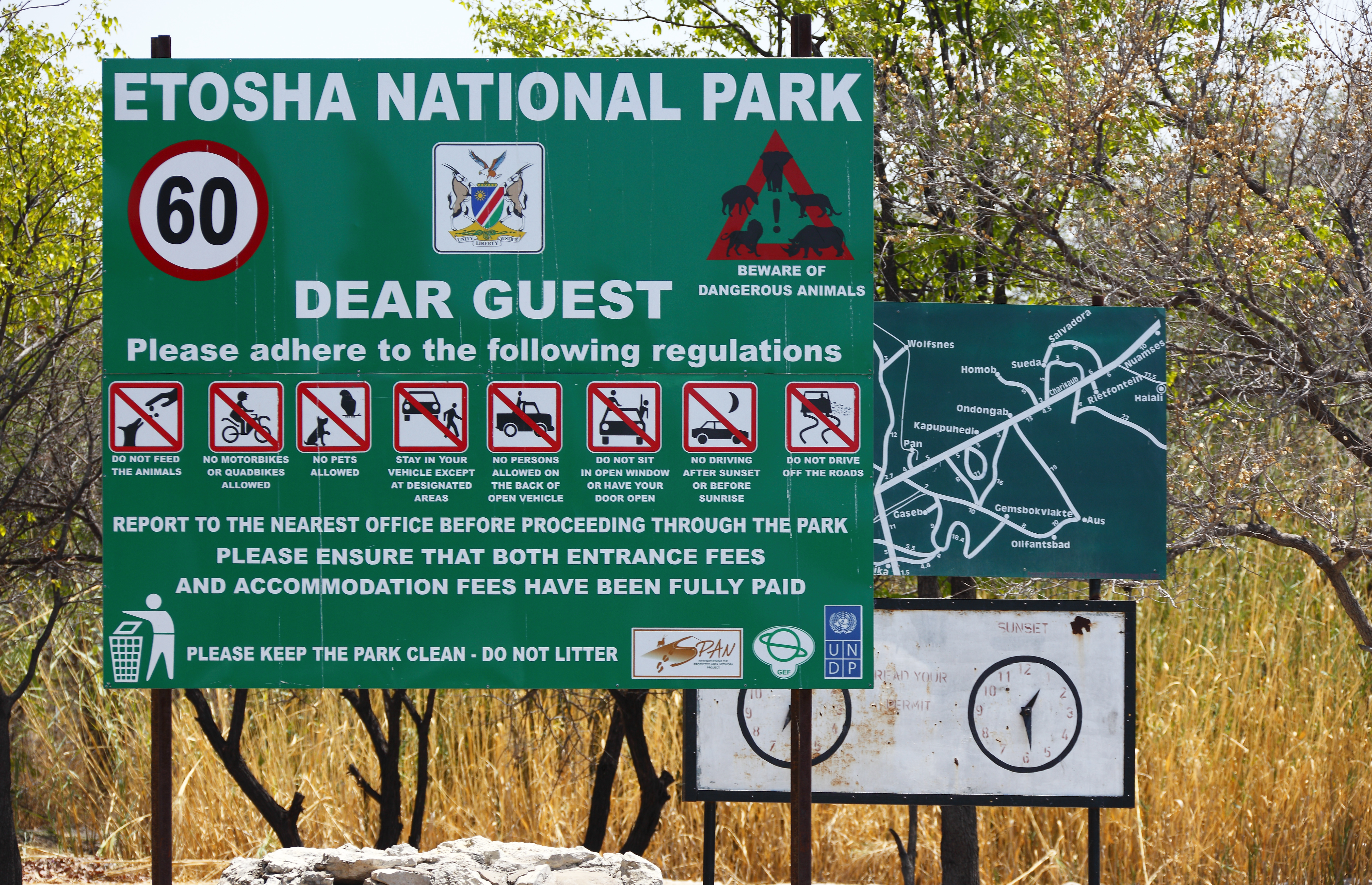 Etosha National Park in Namibia: regulations on entrance.